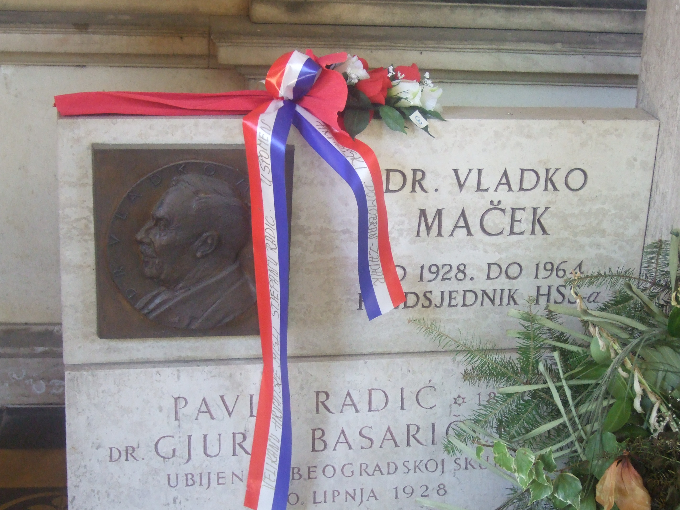 Picture of Vladko Macek's memorial in Mirogoj, Zagreb.